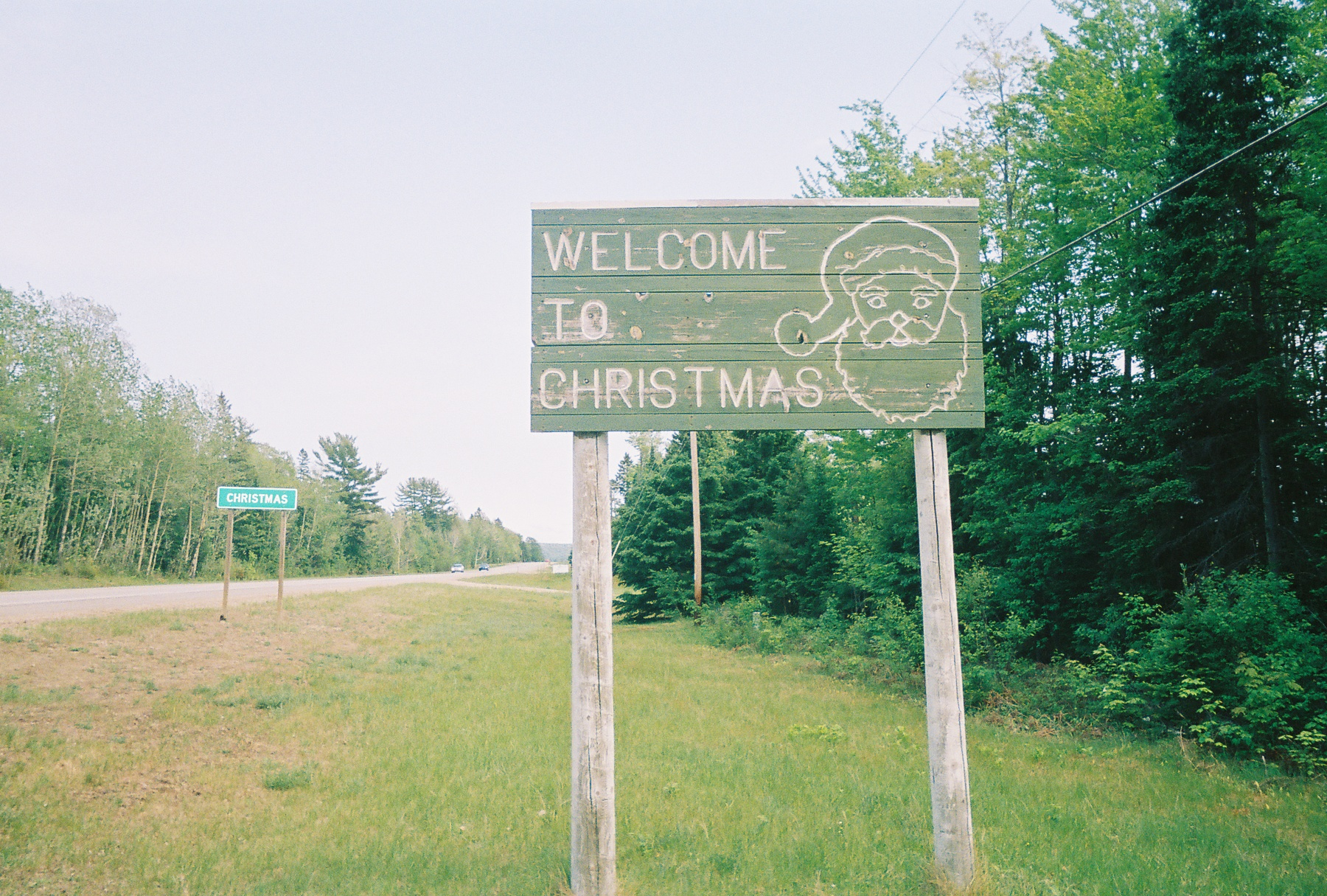 Christmas, Michigan welcome road sign.